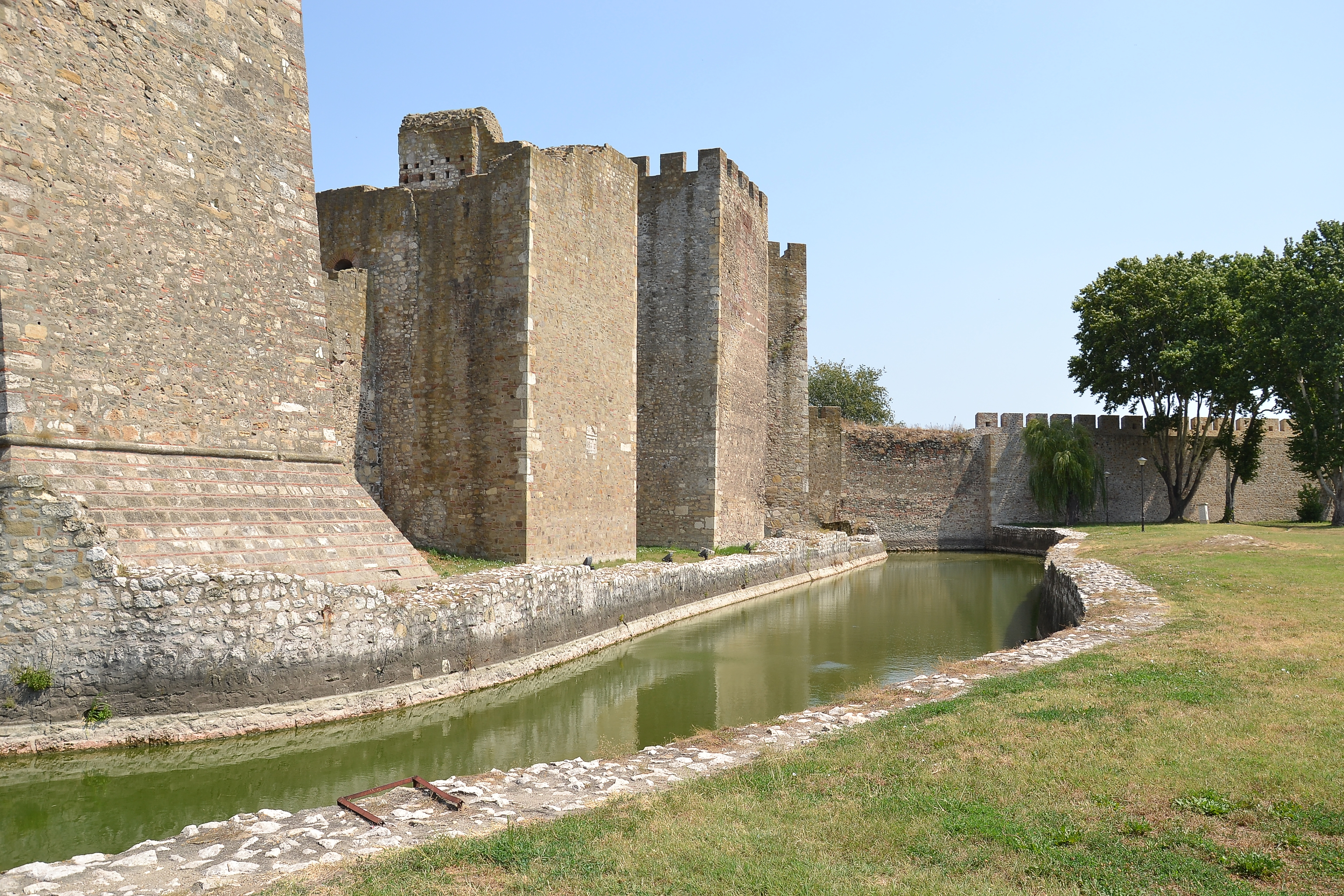 Smederevo fortress, Serbia